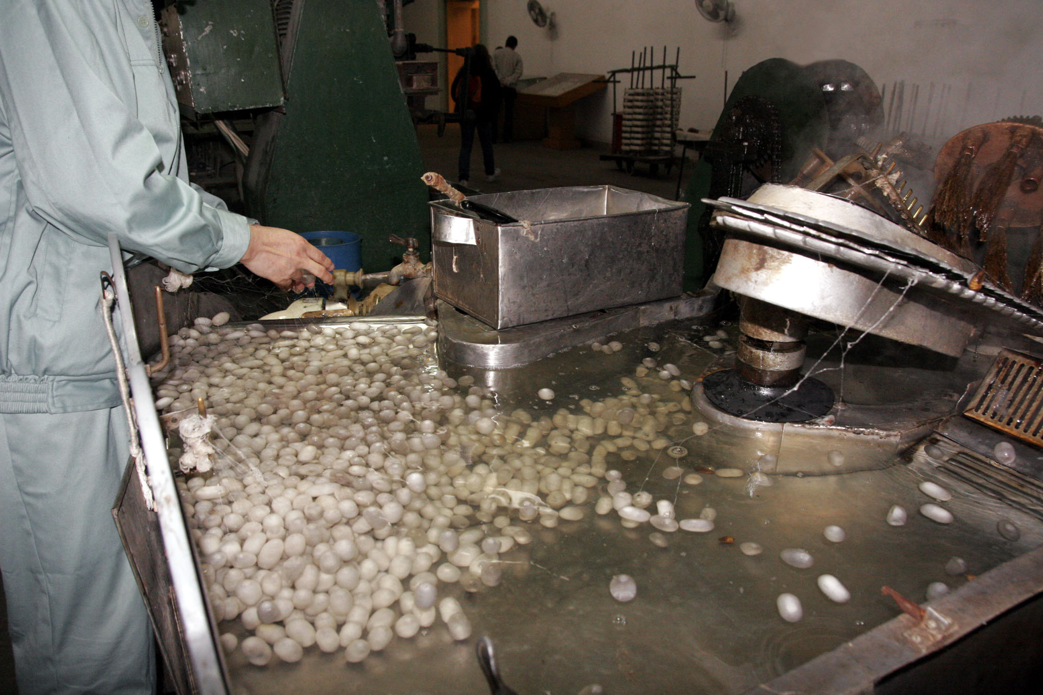 Silk production in the Suzhou No.1 Silk Mill in Suzhou (Jiangsu), China